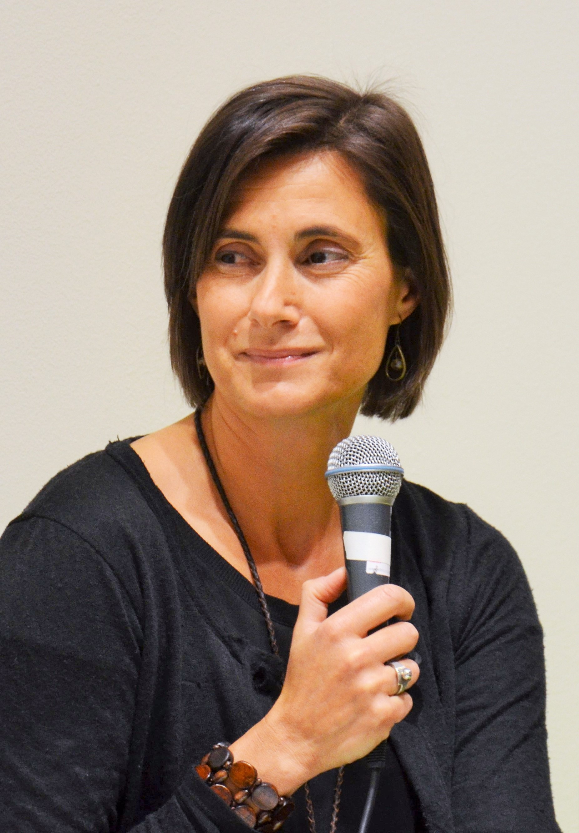 Ann Lagerhammar at the 2014 Göteborg Book Fair.